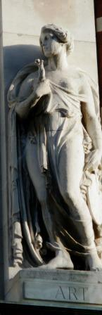 The work "Art" by Louis Frederick Roslyn. This appears above 70-71 New Bond Street along with the work "Commerce", also by Roslyn and "Science" by Thomas Rudge.